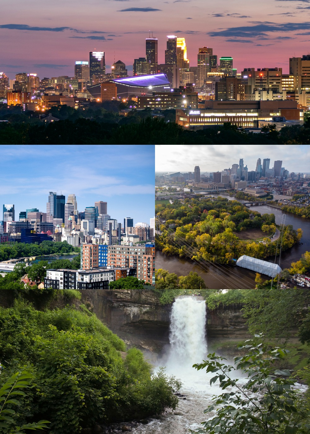 Minneapolis collage